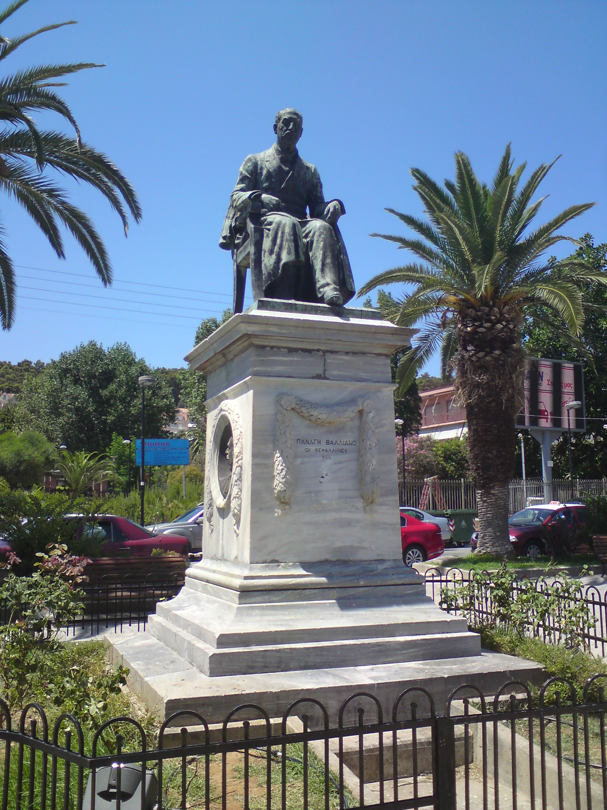 The statue of the Greek benefactor Panagis A. Vallianos on the central square of Argostoli, Kefalonia. The square ("Plateia Vallianou") is named after Vallianos.